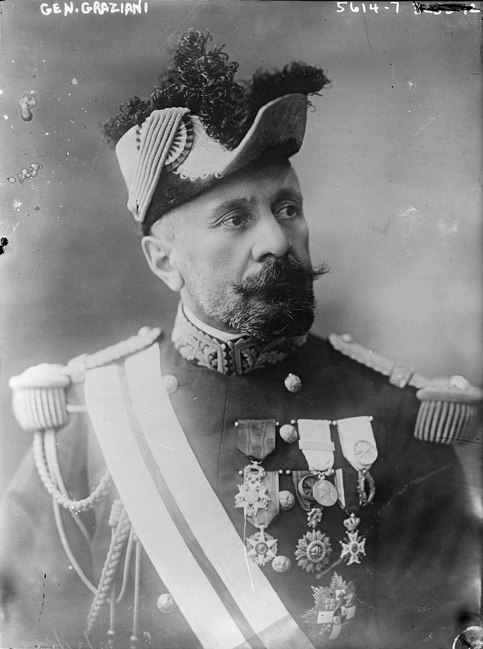 French general Jean César Graziani, half-length portrait